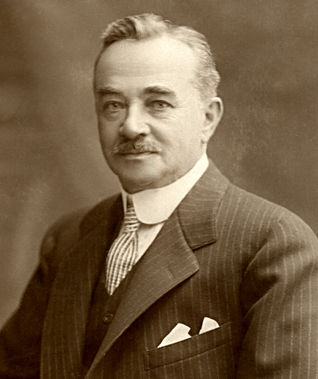 Milton Snavely Hershey